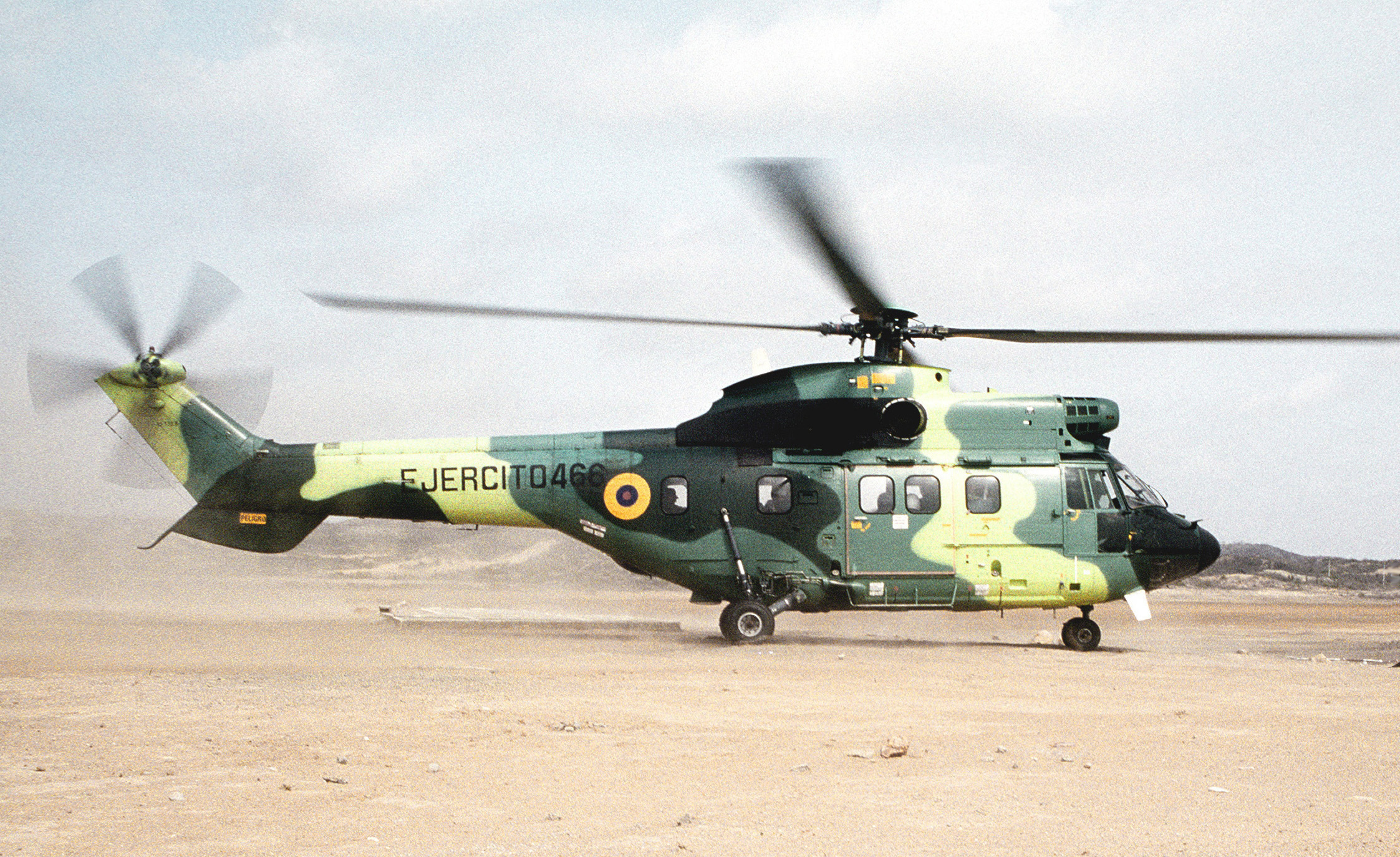 An Ecuadorian AS 532 Super Puma helicopter prepares for take off as it transports U.S. and Ecuadorian Marines during Unitas XXXII, a combined exercise involving the naval forces of the United States and nine South American nations.